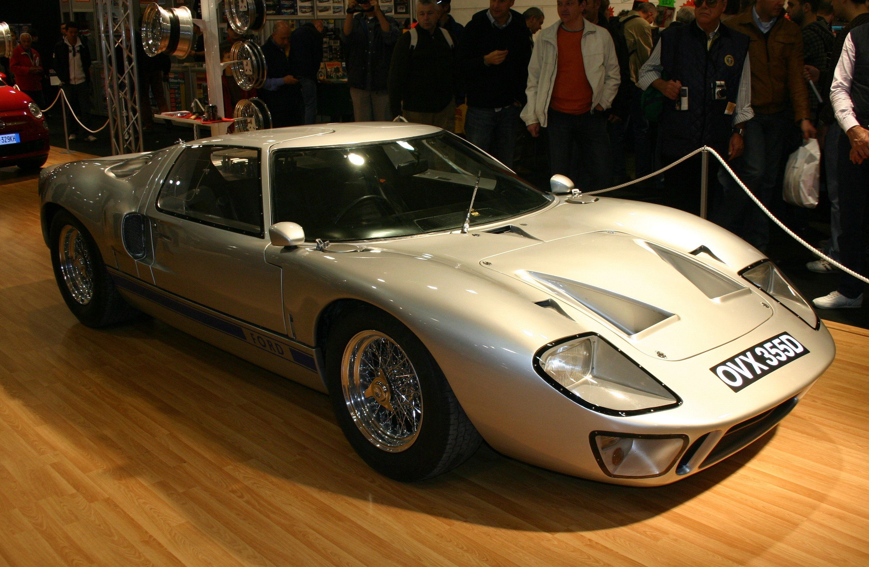 Street legal Ford GT40 in Padova, Italy.